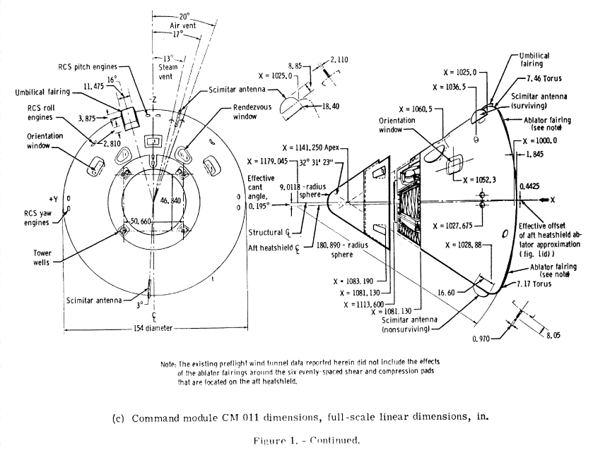 Apollo Block I Command Module CM-011 exterior dimensions